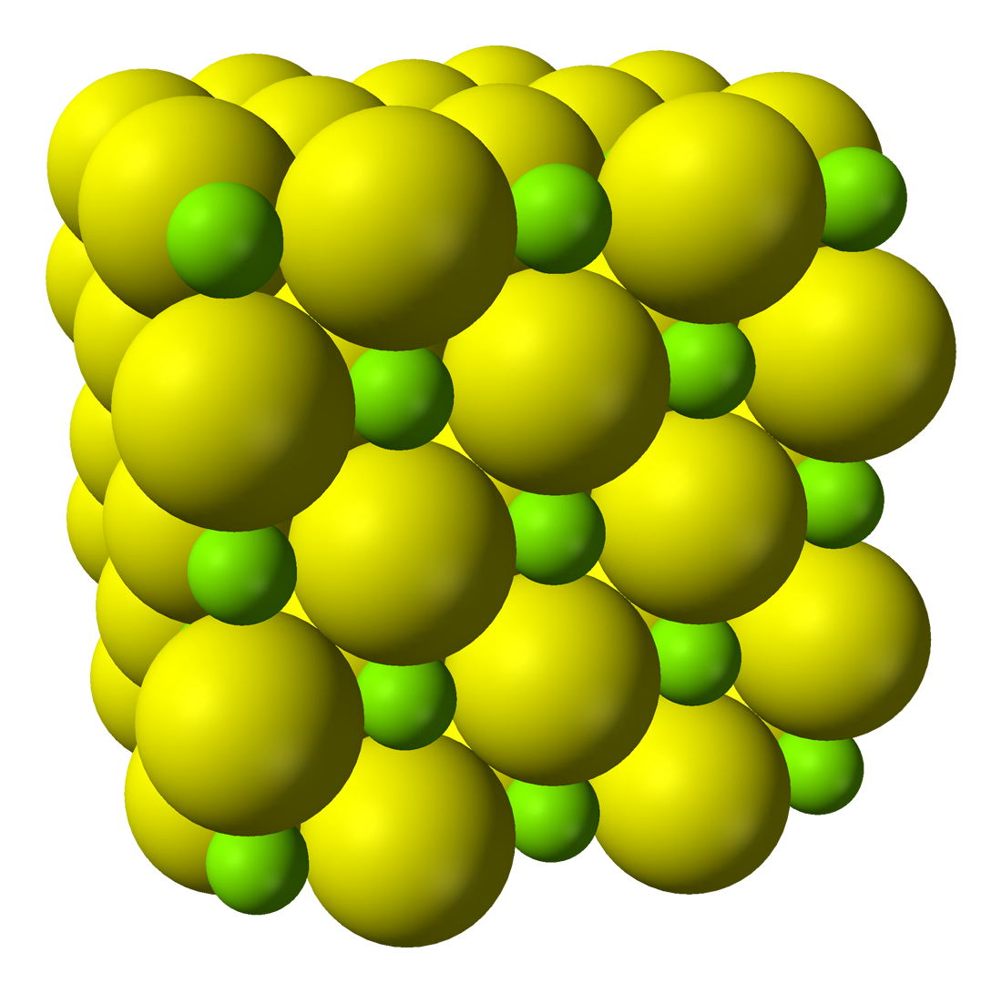 Space-filling model (Pauling ionic radii) of four unit cells of magnesium sulfide, MgS